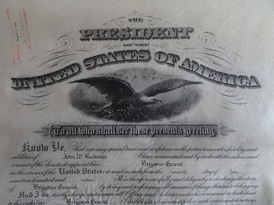 Photo of the military commission naming John Wilson Ruckman to the rank of brigadier general.